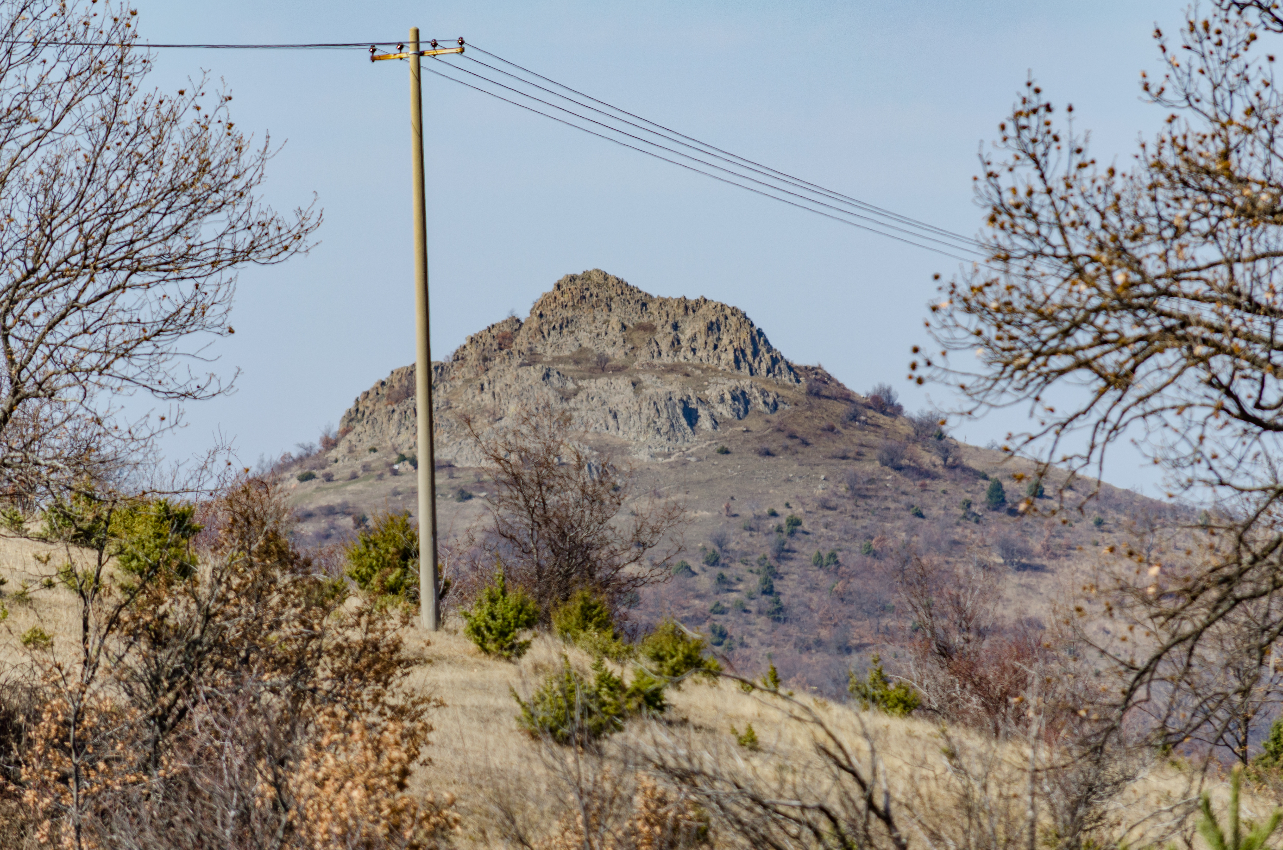 View of Kokino megalithic observatory